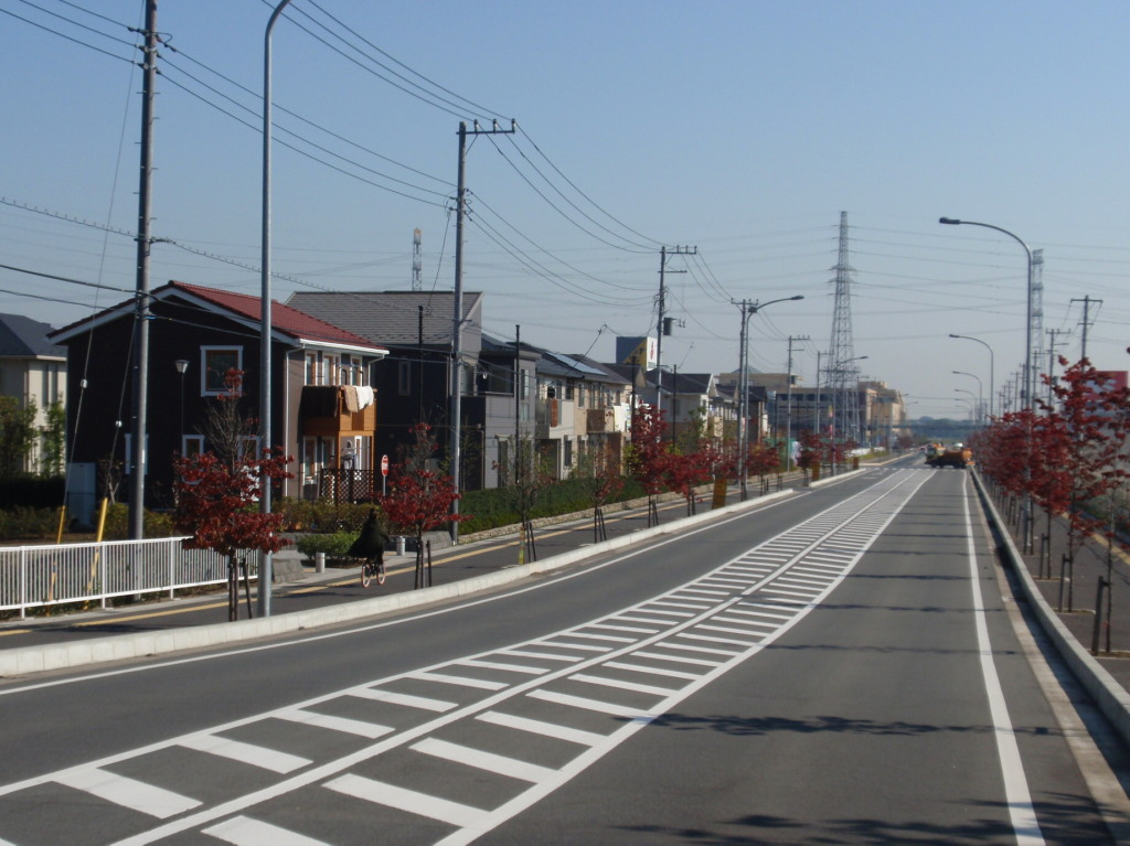 Takasaka-Station east-road, Higashimatsuyama-city, Saitama-pref, Japan